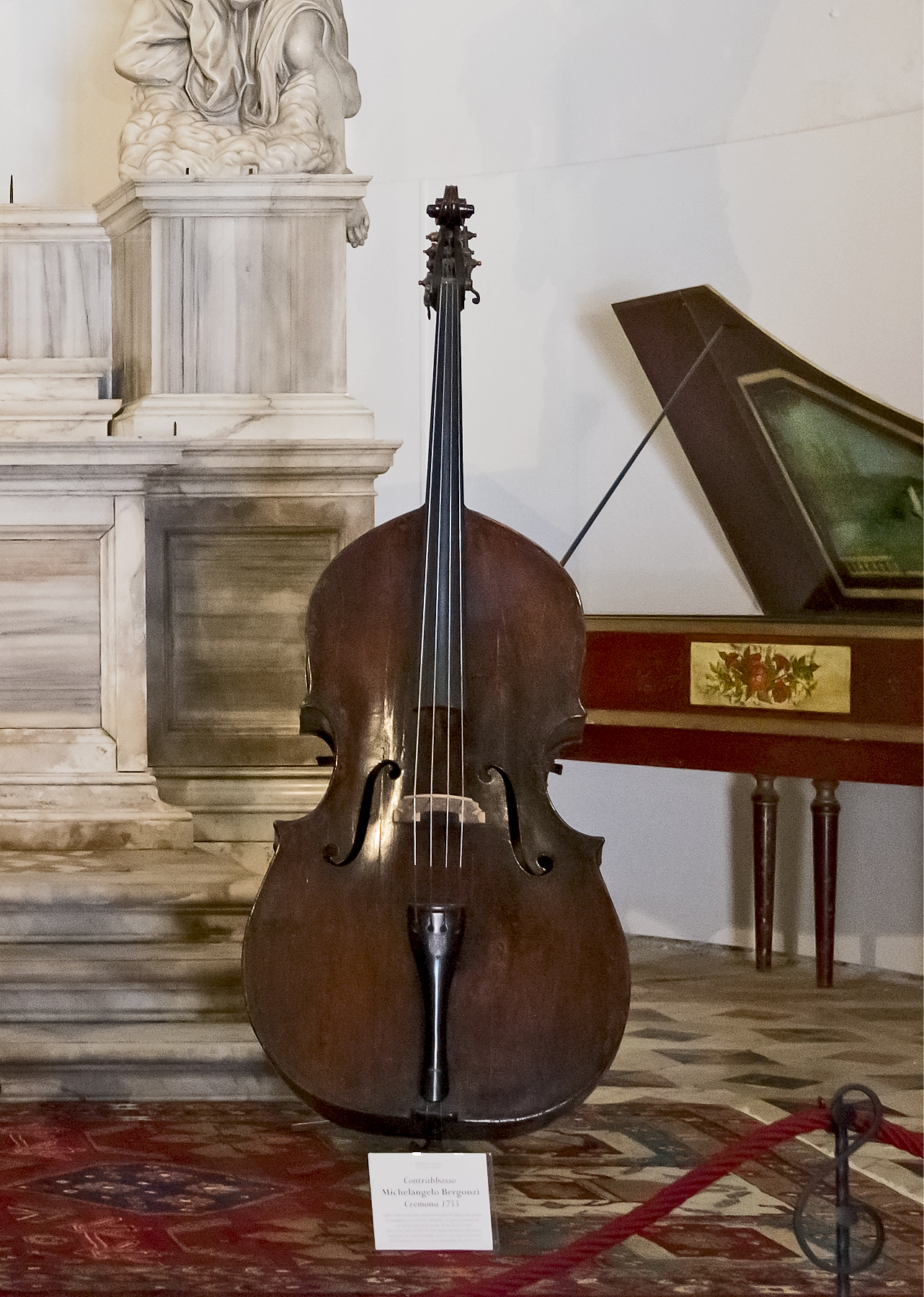 Church san Maurizio today Museo della musica in Venice. Double bass made by Carlo Bergonzi in Cremona in 1733.